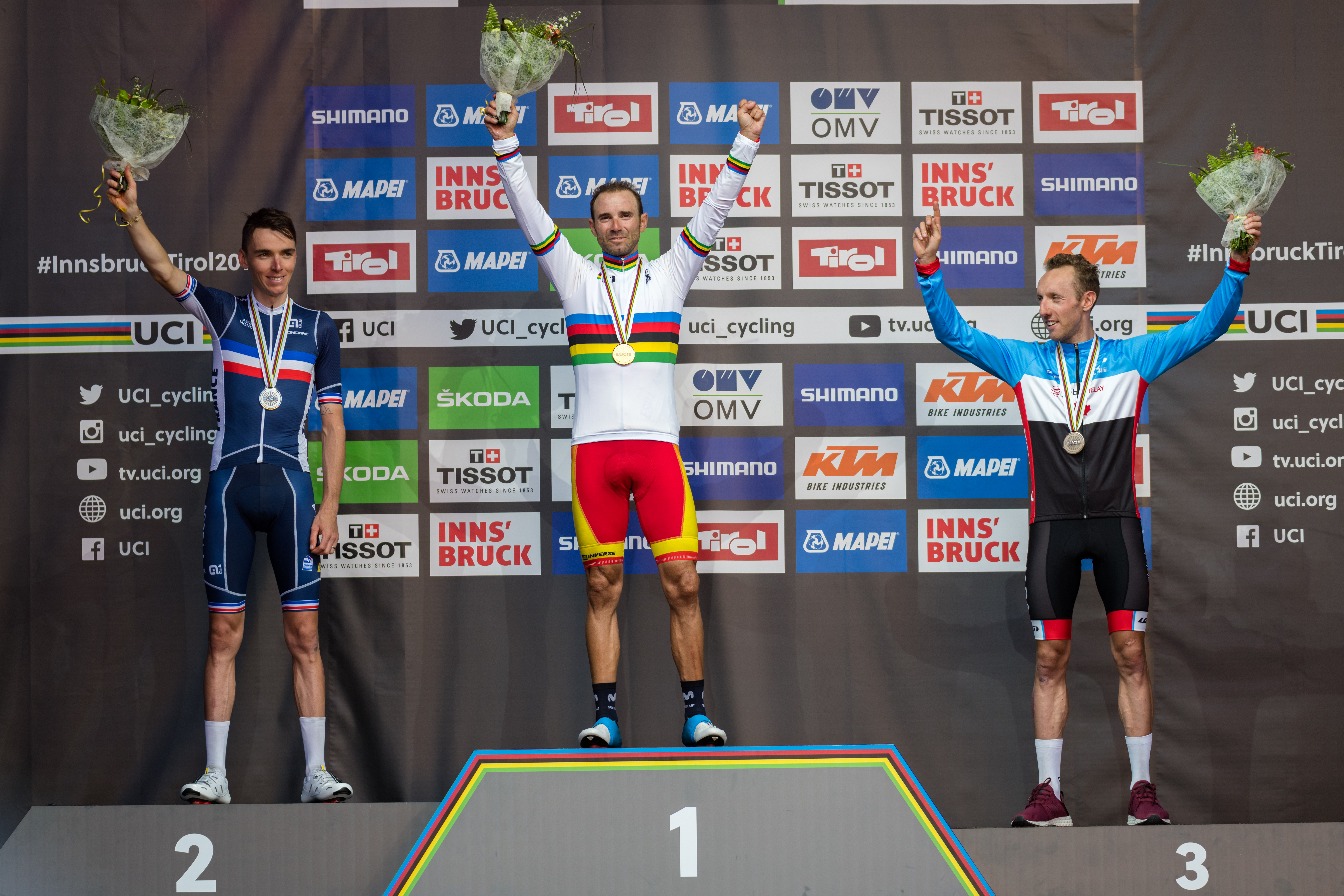 2018 UCI Road World Championships Innsbruck/Tirol Men Elite Road Race. Picture shows: Award Ceremony with Romain Bardet of France, winner Alejandro Valverde of Spain and Michael Woods of Canada